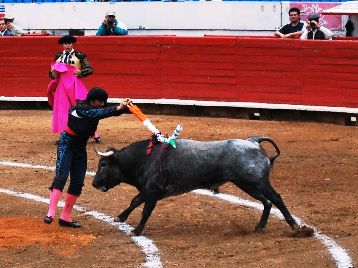 Principe and banderillero at the 28 June event at the Plaza de Toros in Mexico City